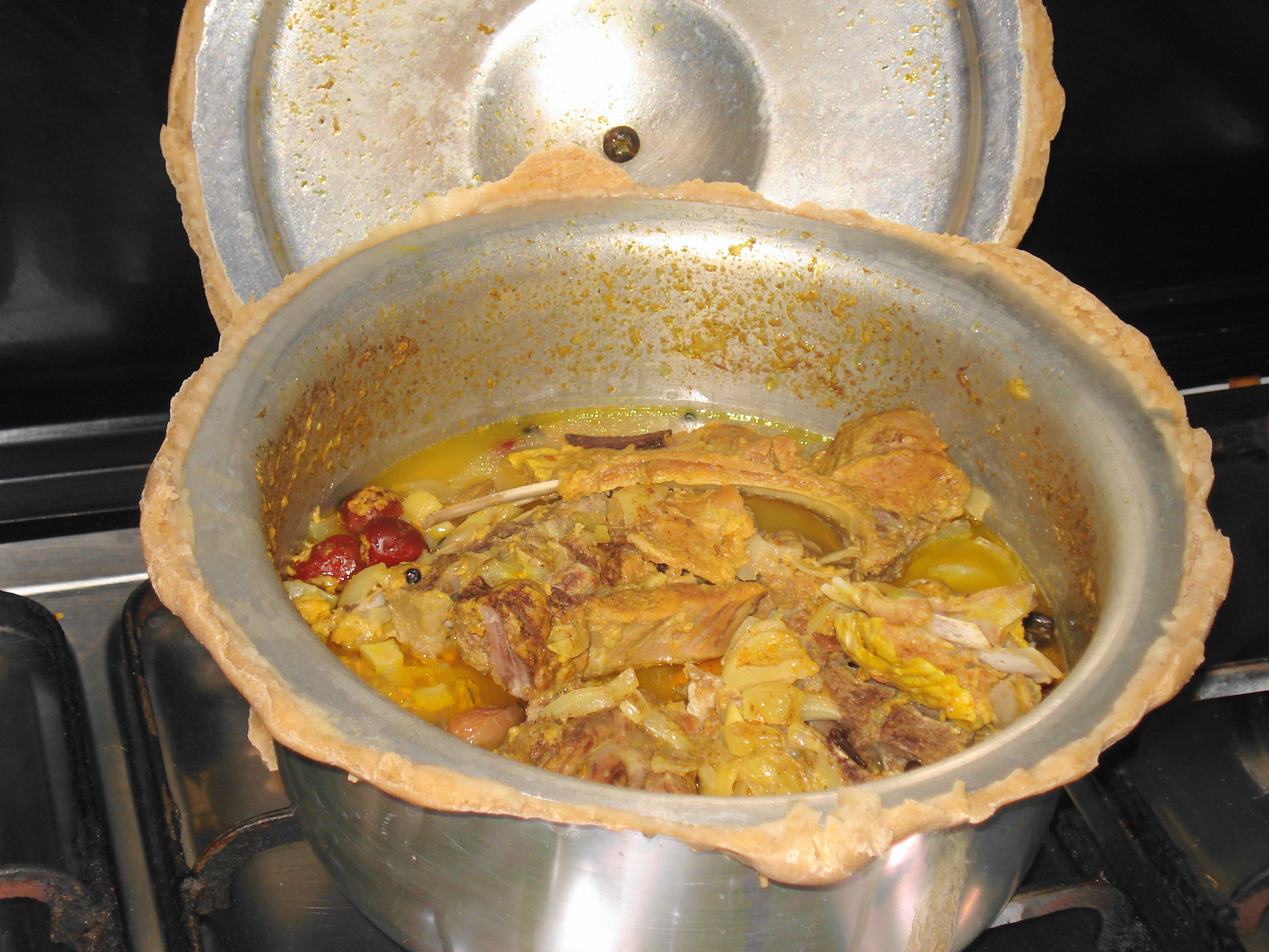 dumpakht